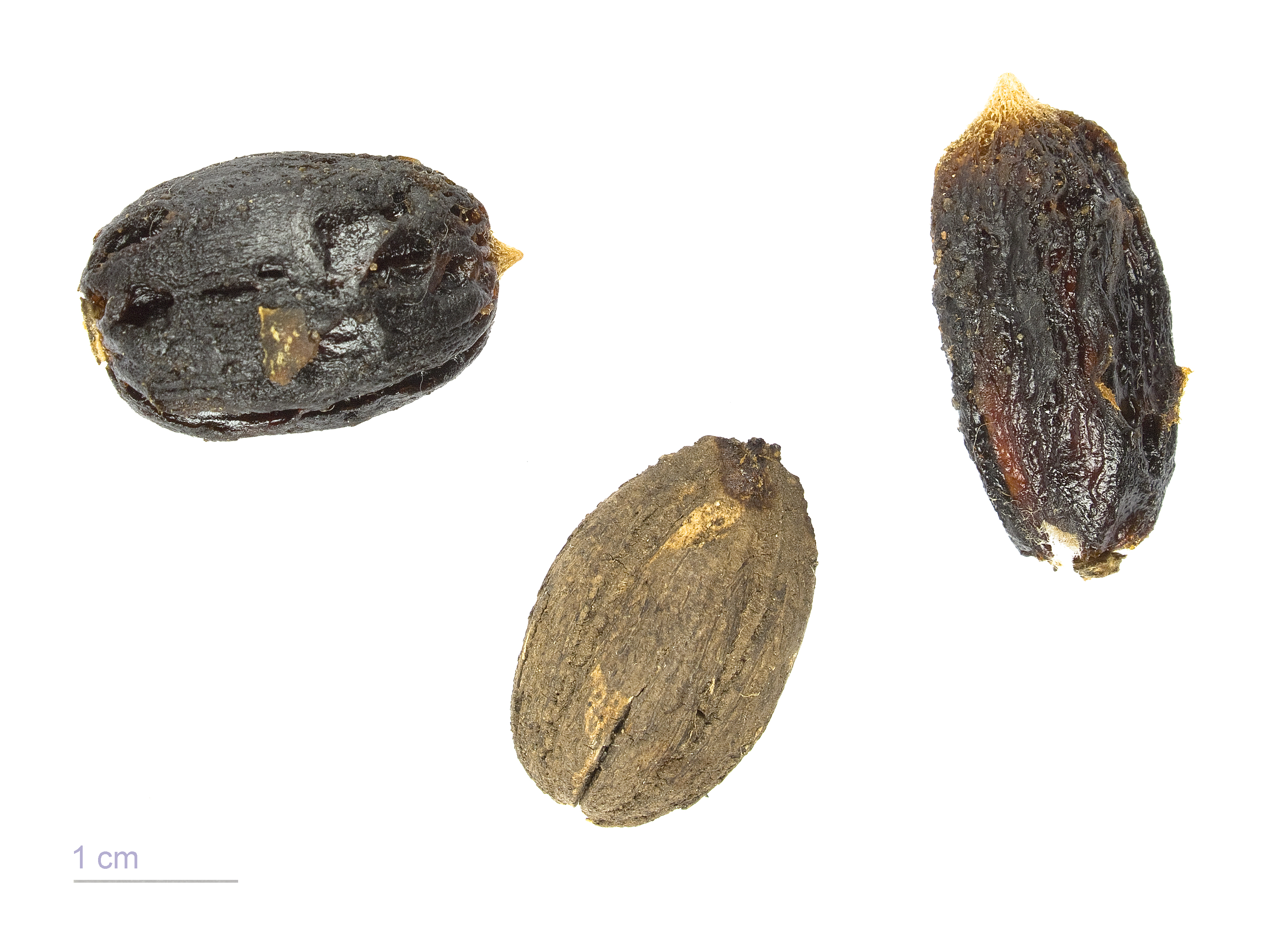 Balanites aegyptiacus , fruits and seeds